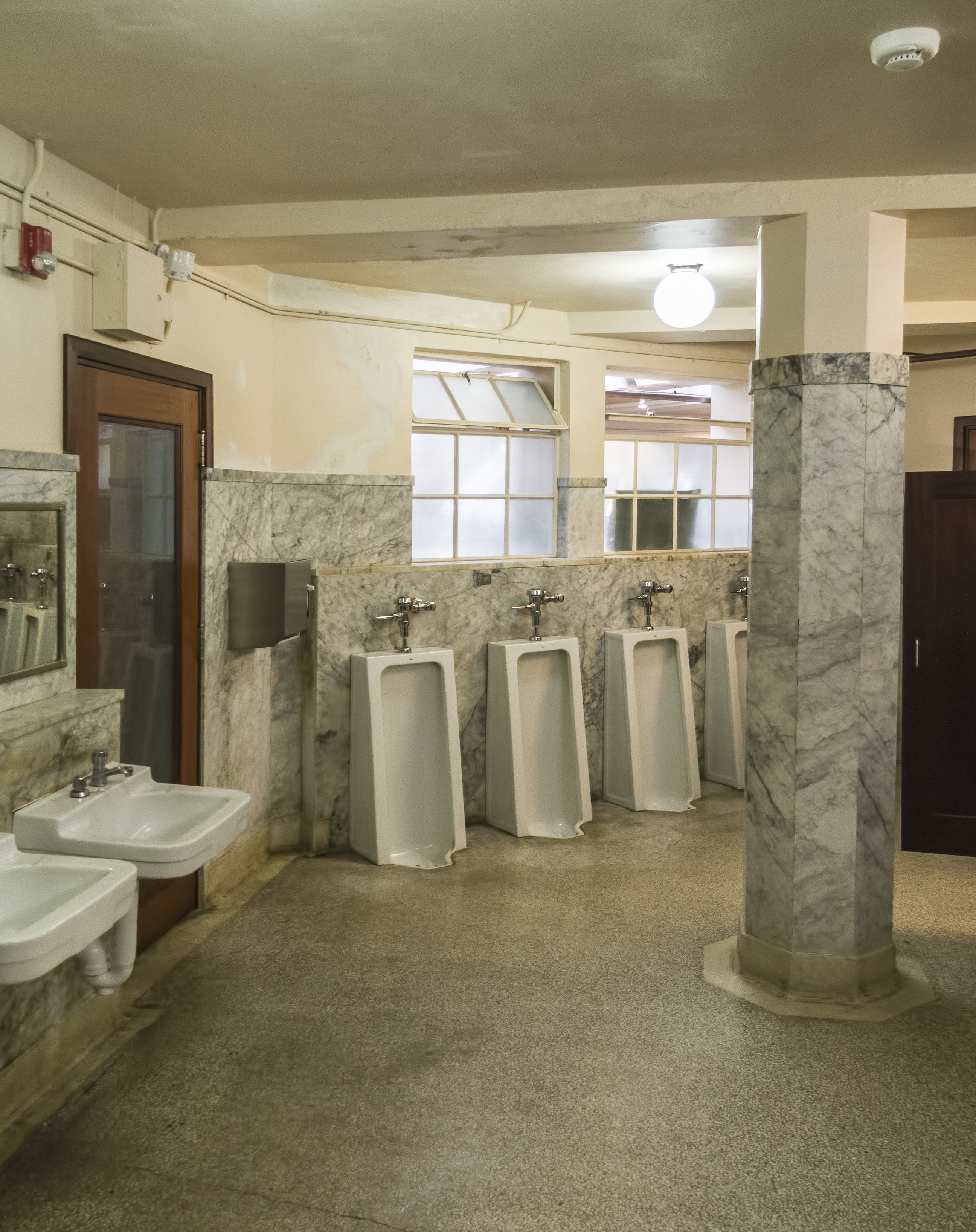 The mens' toilets at Vista House, Crown Point, Oregon, USA.